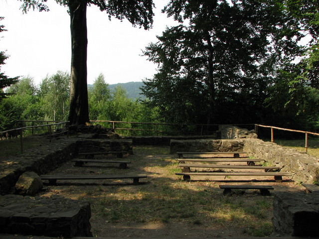 Hill of Saint Clement I - foundations of a medieval church